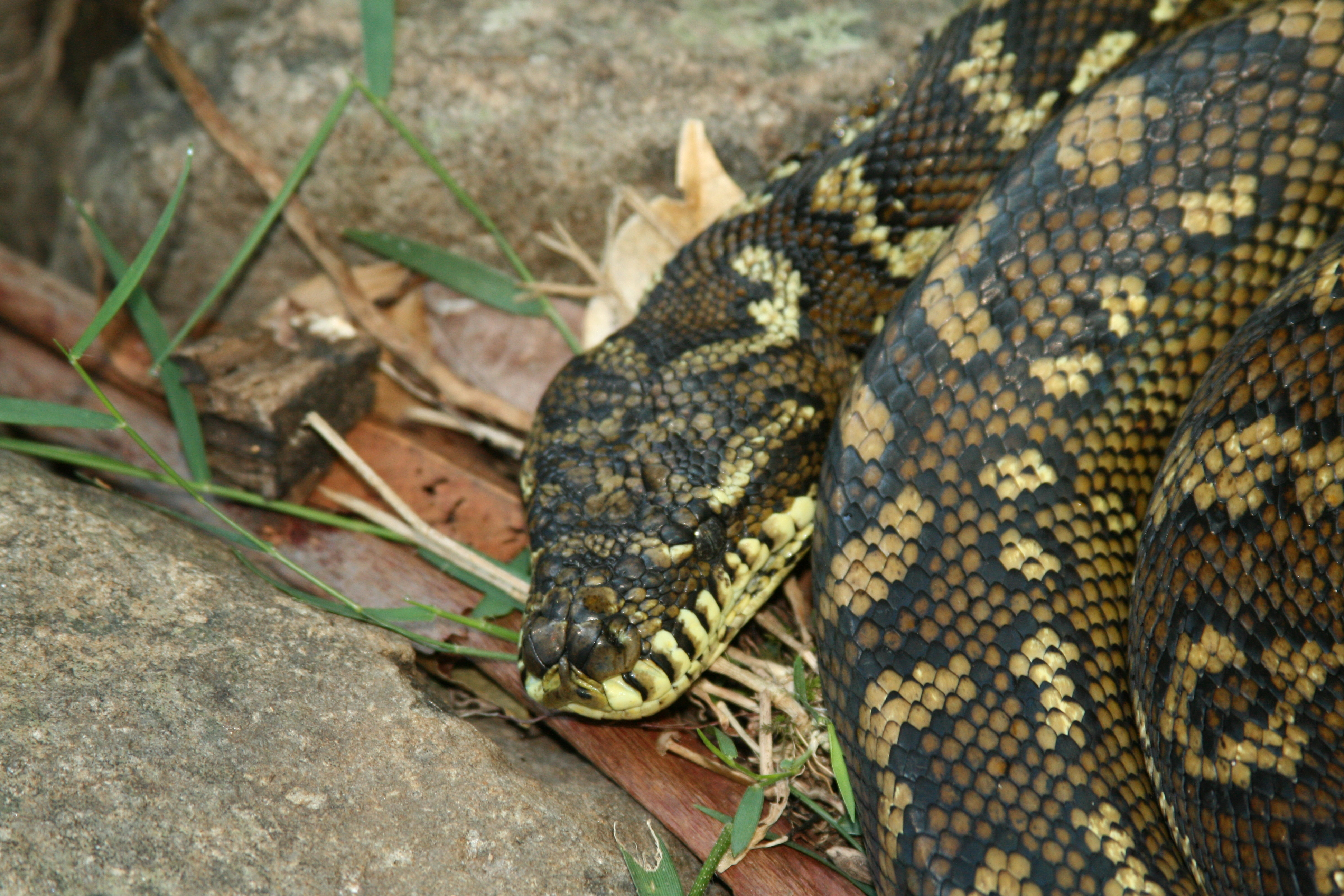 A carpet python, Morelia s. spilota, basking in the early morning sun on the bank of the Coomera River within Lamington National Park, Queensland, Australia